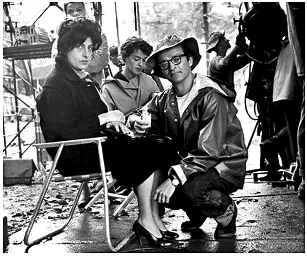 Photo of Sidney Lumet and Anna Magnani on the set of The Fugitive Kind (1959).